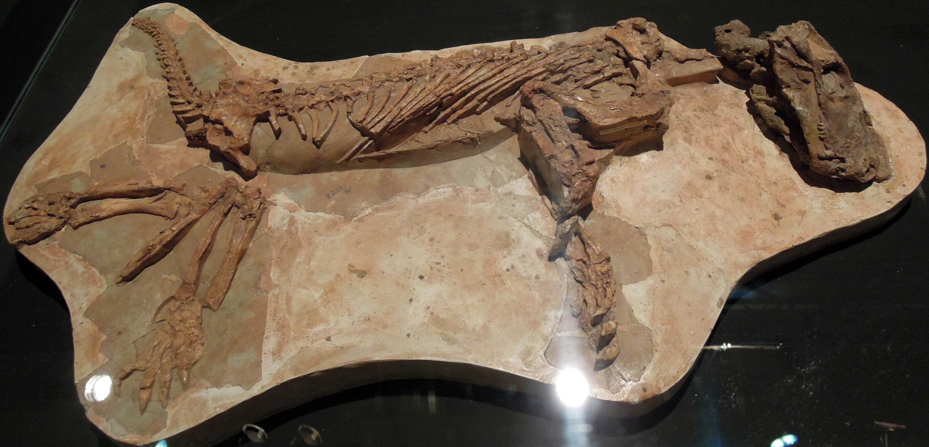 Viatkogorgon ivachnenkoi, Dinosaurium exhibition, Prague, Czech Republic